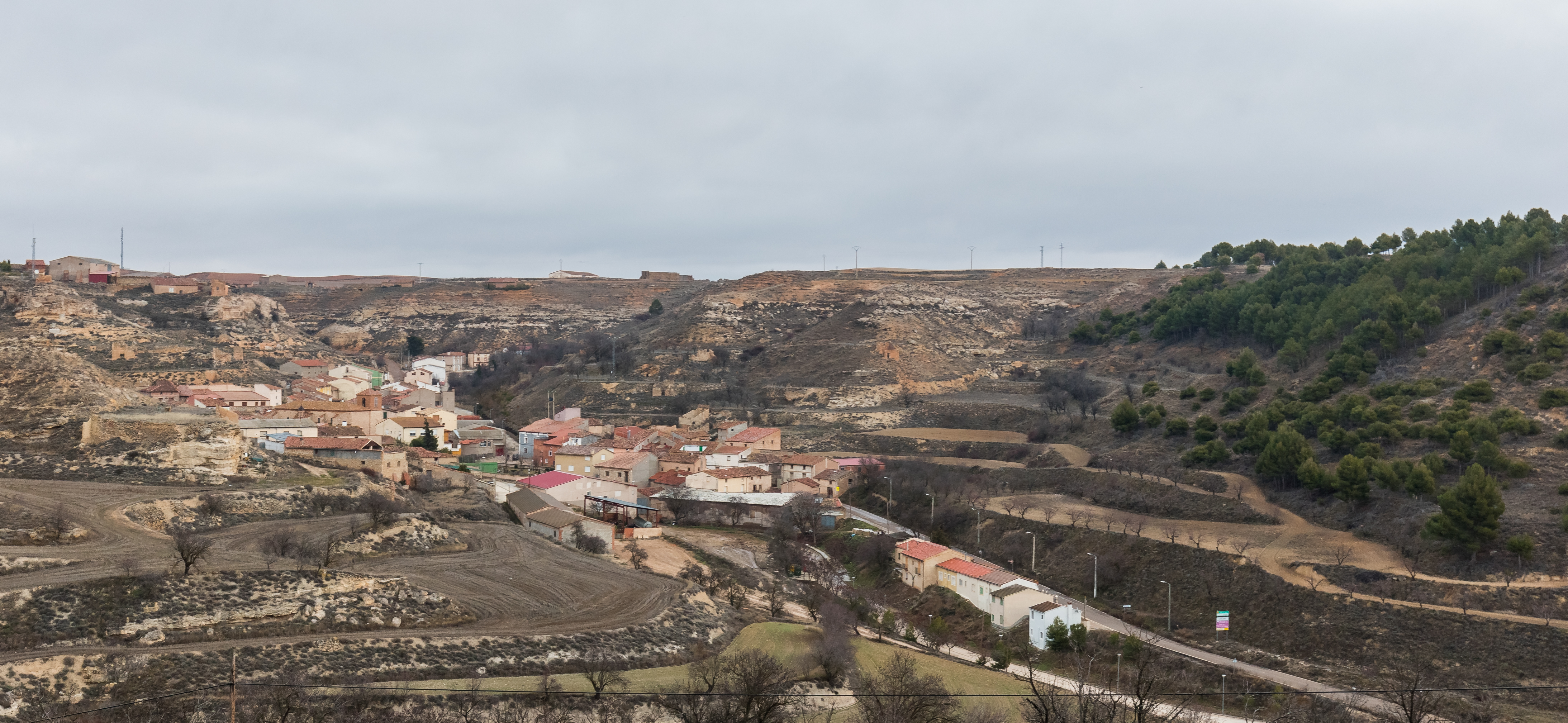 Retascón, Zaragoza, Spain